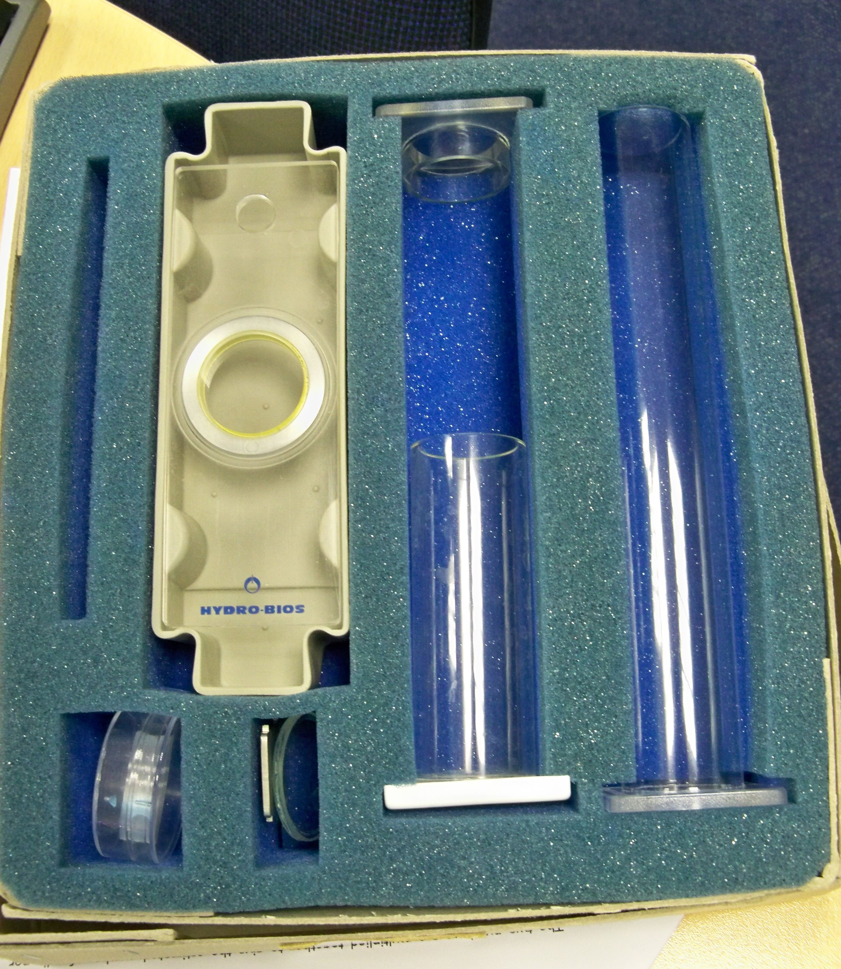 Utermöhl chambers for plankton counting